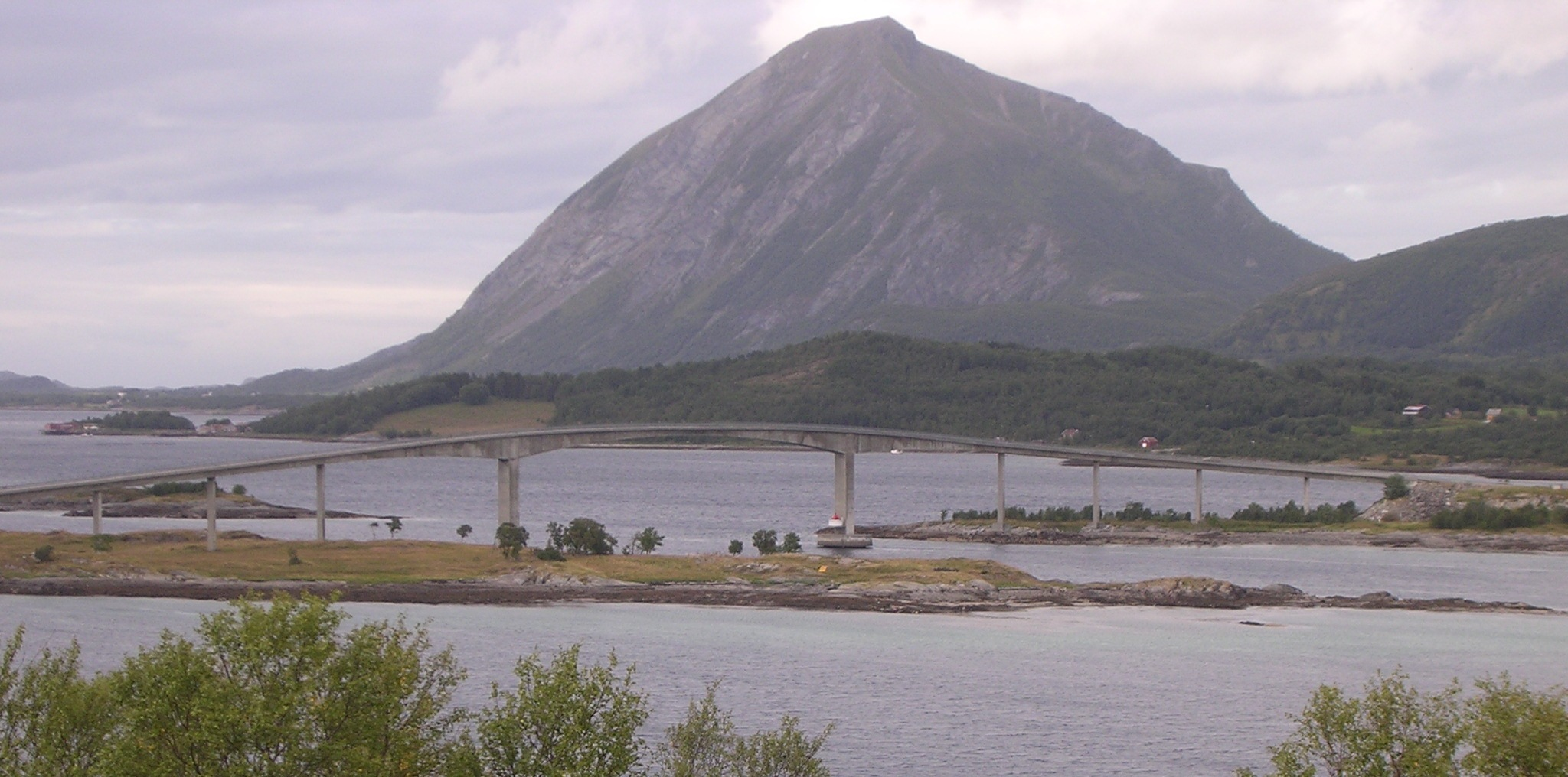 Bridge between Engeloy and the mainland (Bogen) in Steigen, Nordland, Norway. The mountain in the background is called "Prestkona".